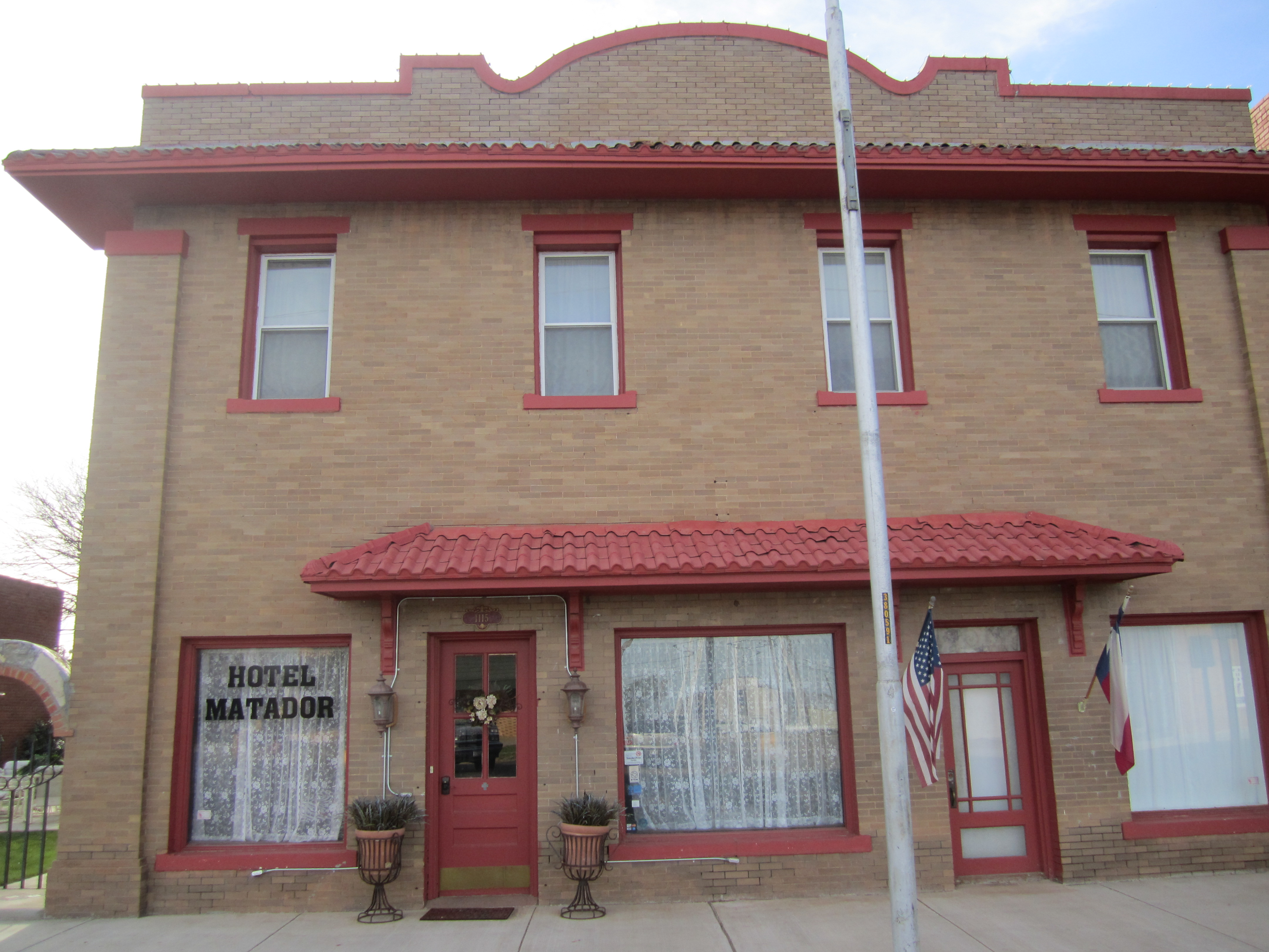 I took photo with Canon camera in Matador, TX.